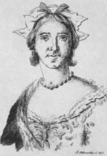 Marie Ragueneau de l'Estang (Mademoiselle La Grange), French actress with the troupe of Molière